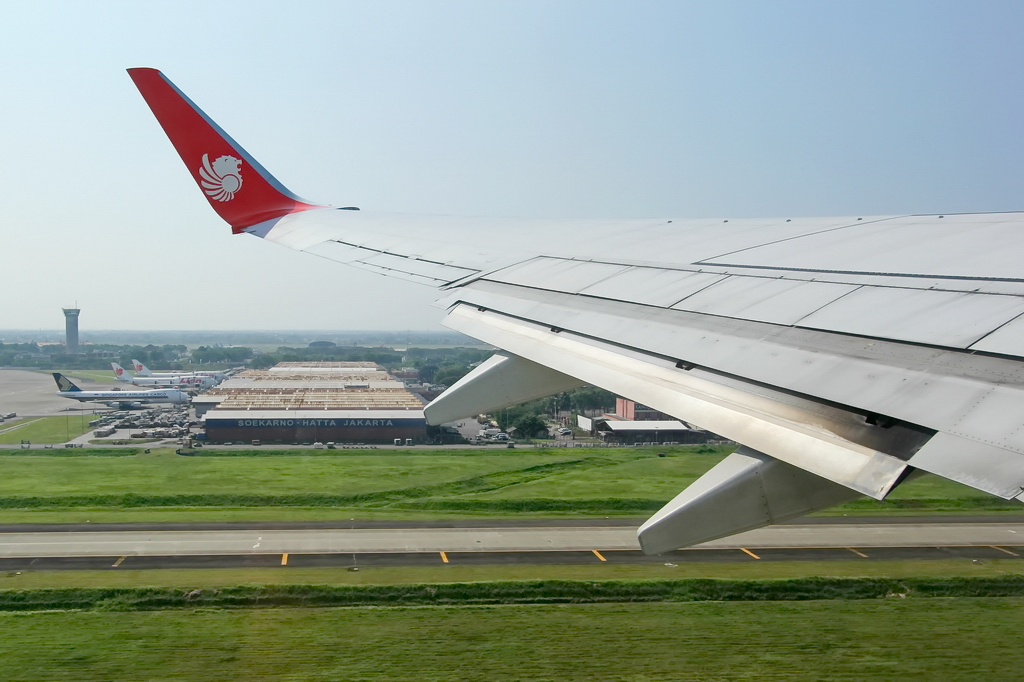 CGK's Cargo Terminal view shortly after lifting off from runway 07R. Heading to BPN in Borneo Island as JT756. Boeing 737-9GP/ER Lion Air PK-LJI